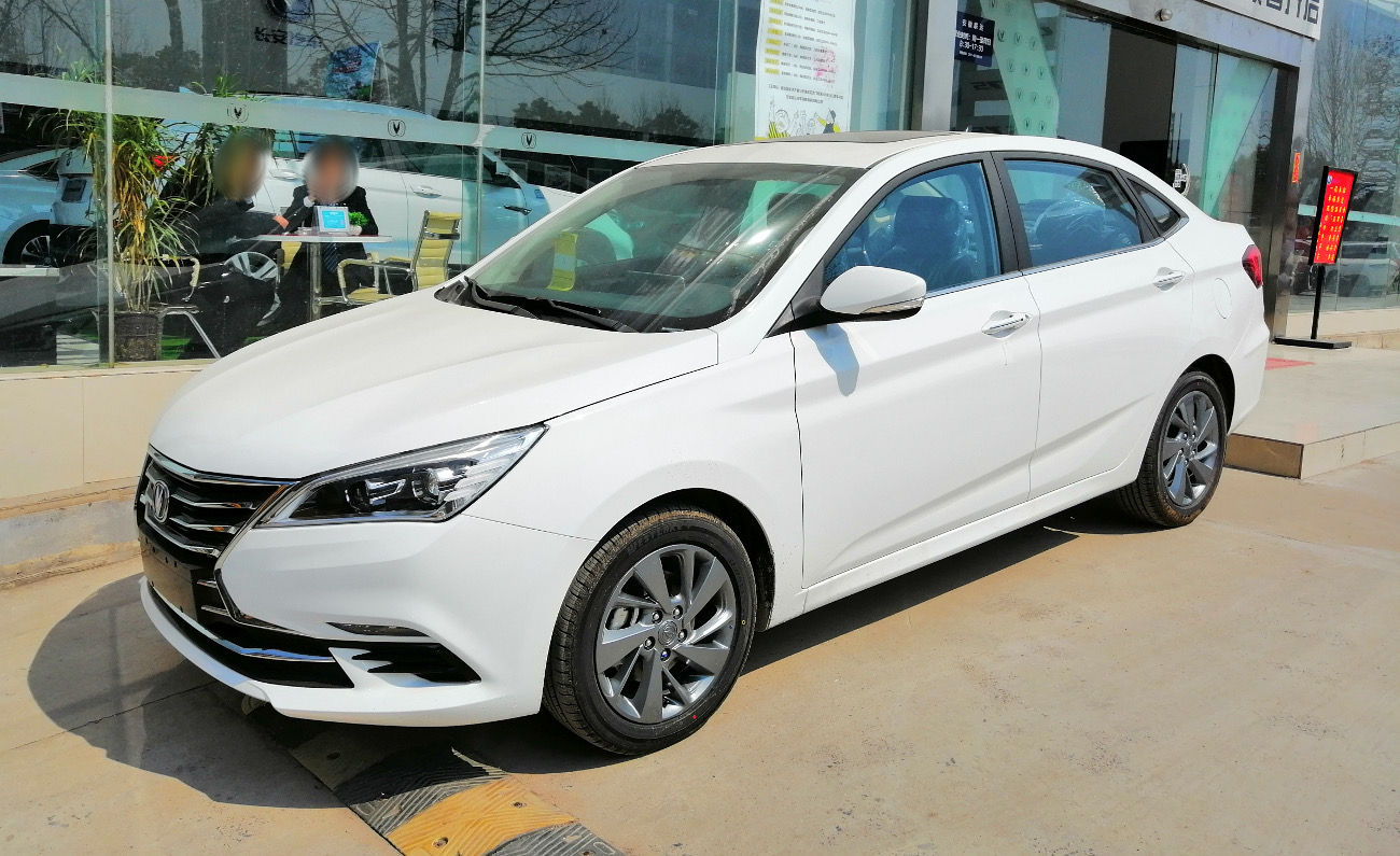 Chang'an Eado DT photographed in Hefei, Anhui province, China.